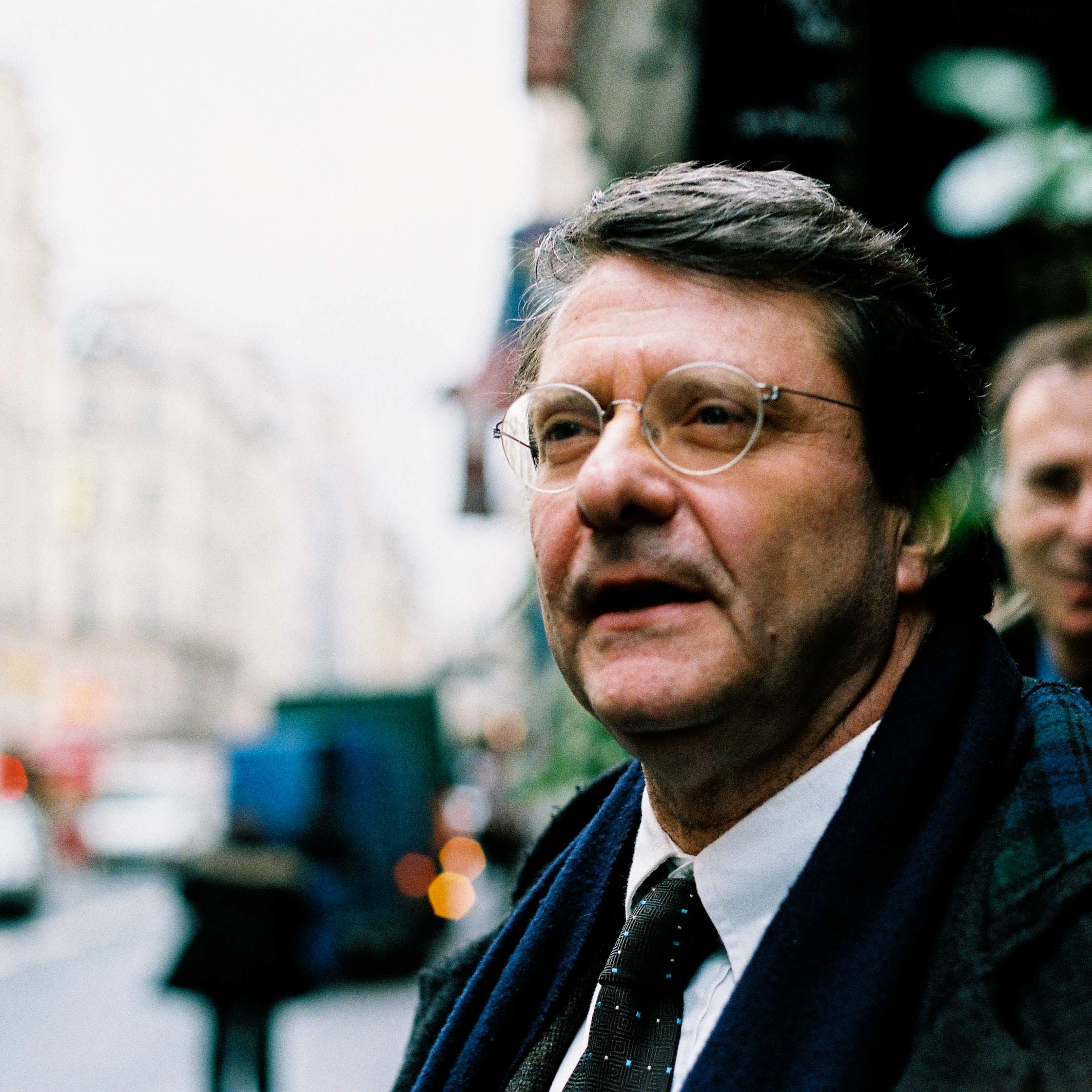 Erik Izraelewicz french journalist.